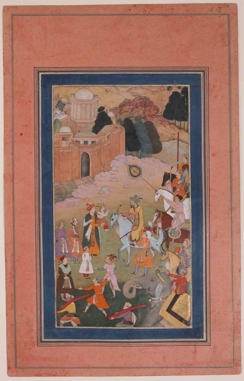 "The Emperor Humayun Returning from a Journey Greets his Son", Folio from the Davis Album Object Name: Illustrated album leaf Reign: Jahangir (1605–27) Date: early 17th century Geography: India Medium: Ink, opaque watercolor, and gold on paper Dimensions: 13.12 in. high 8.25 in. wide (33.3 cm high 21 cm wide) Classification: Codices Credit Line: Theodore M. Davis Collection, Bequest of Theodore M. Davis, 1915 Accession Number: 30.95.174.14 This artwork is not on display